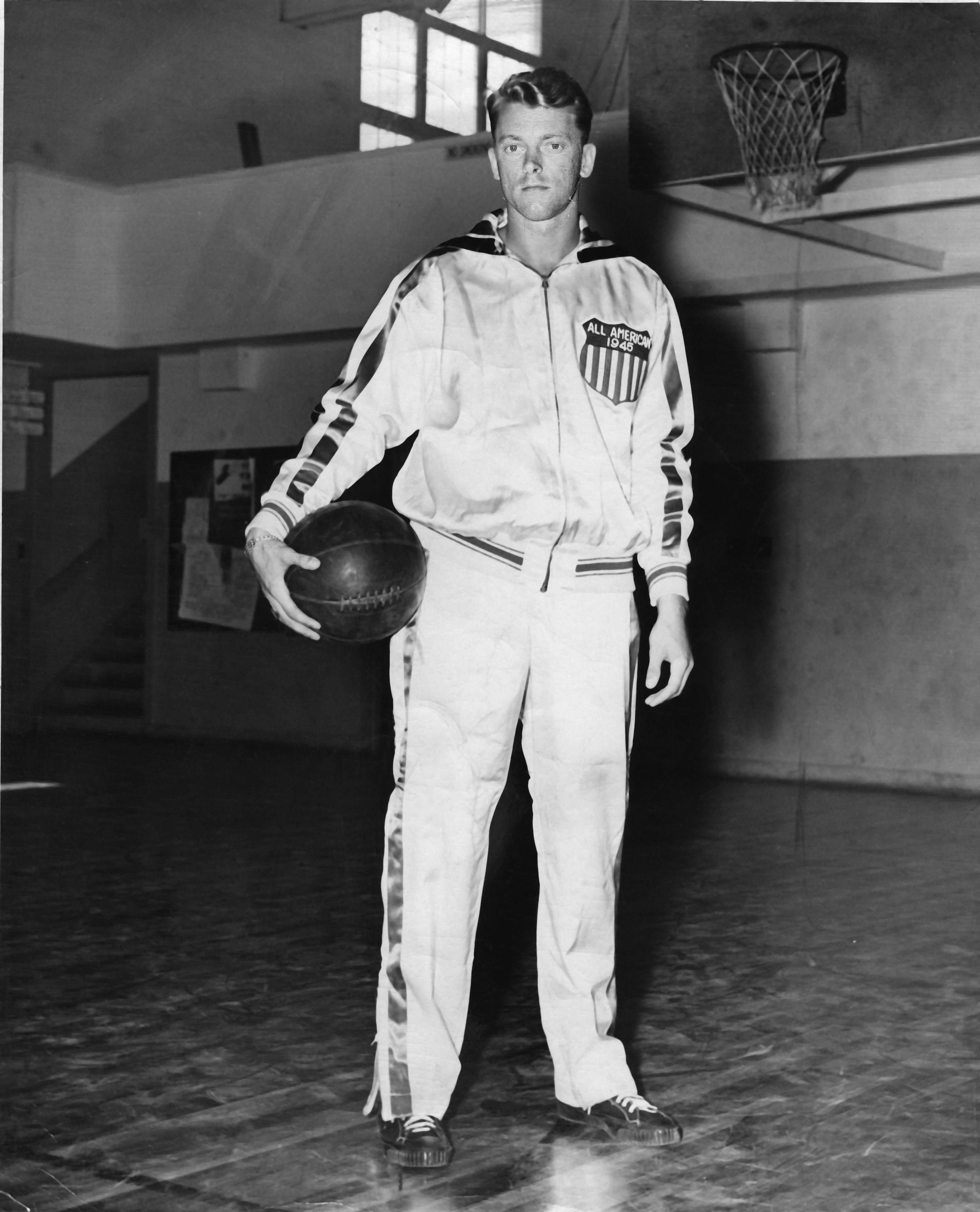 Walt Kirk, 1945 Consensus All American, University of Illinois